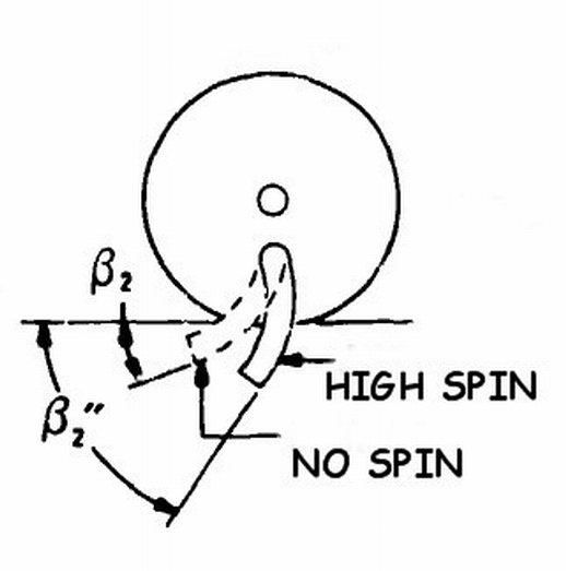 Governor used to reduce the spin RPM of the M734 Fuze turbine at high launch velocities